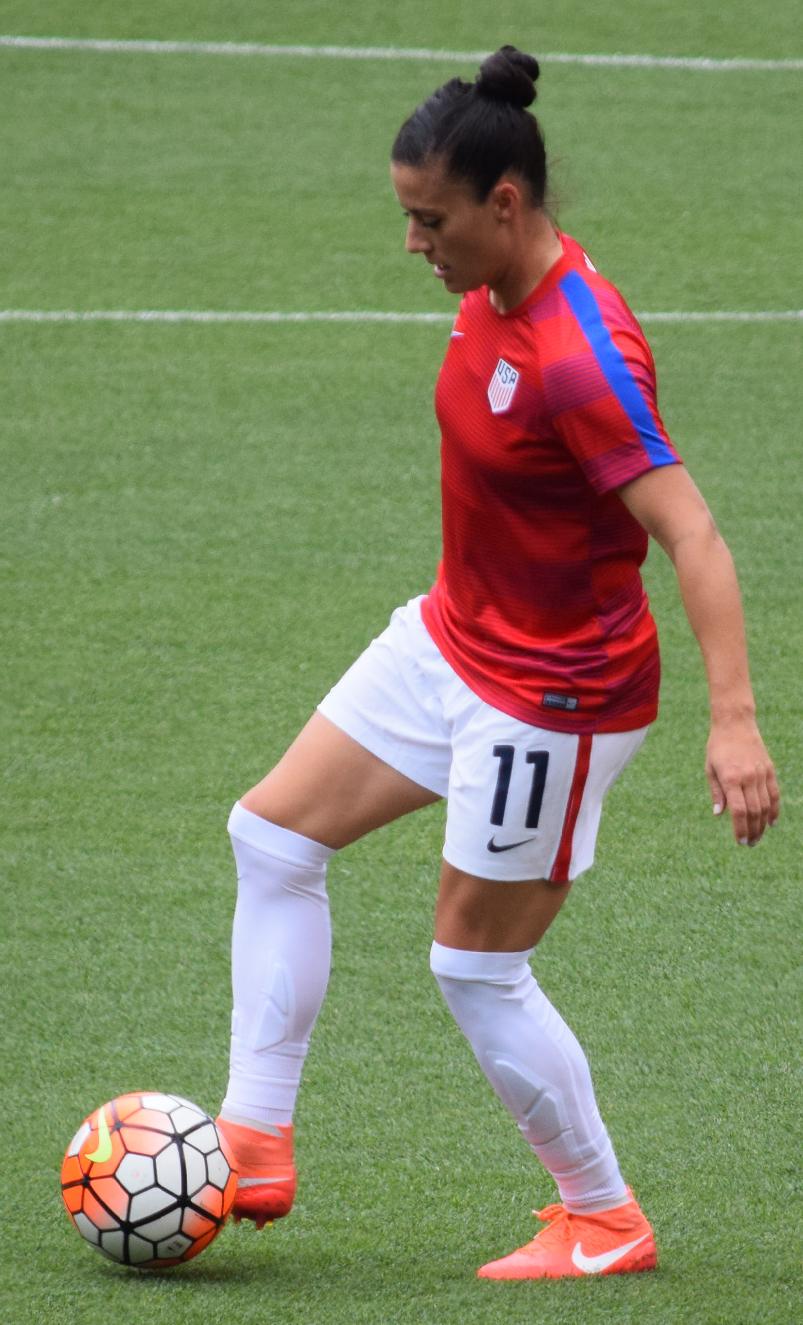 Ali Krieger before the match against Japan on June 5, 2016 in Cleveland, Ohio